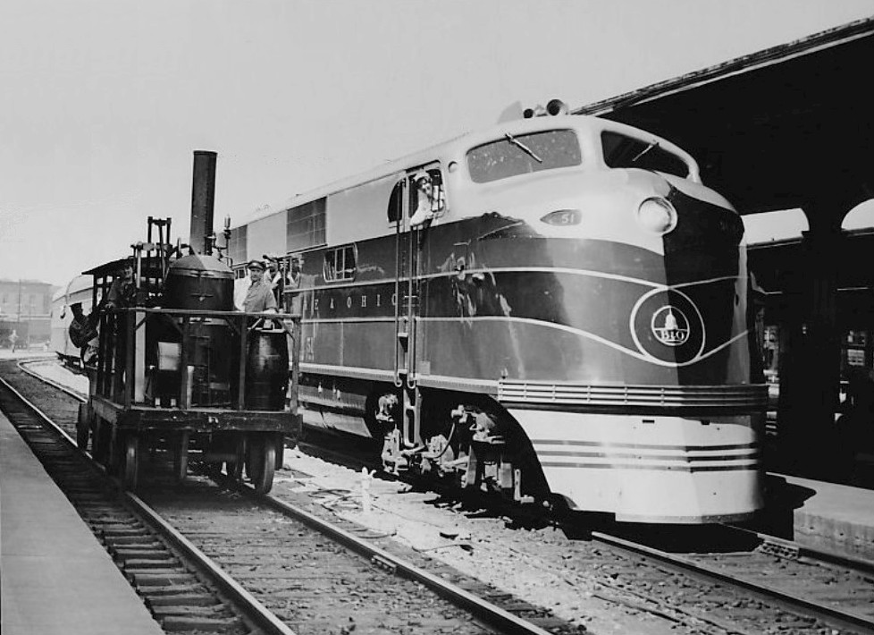 Photo of the Baltimore & Ohio's new EMD EA diesel locomotive for the Capitol Limited and the railroad's replica of their noted early steam engine, Tom Thumb. Auction copy-"A vintage 1937 ORIGINAL photograph depicting Baltimore & Ohio Railroad introducing its newest with its oldest. The famous Tom Thumb is posed with a shiny EA built by Electro-Motive Corporation of La Grange, Illinois."